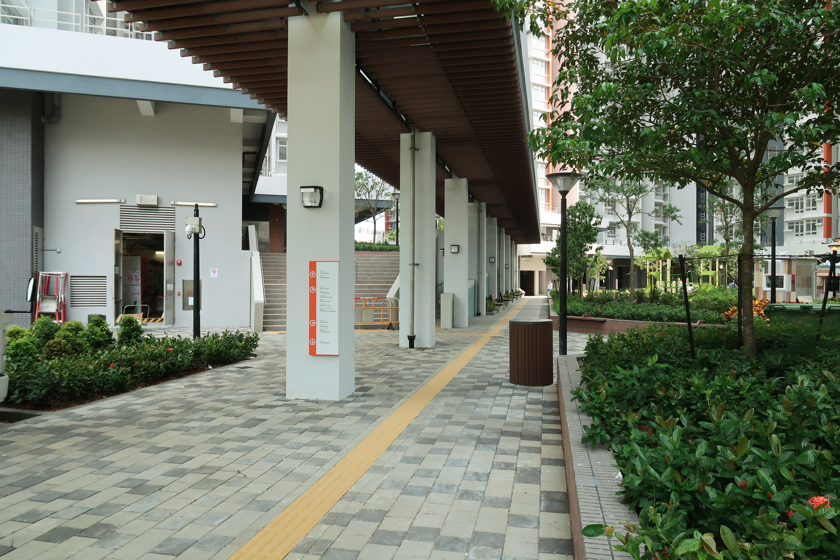 Hoi Lok Court covered walkway